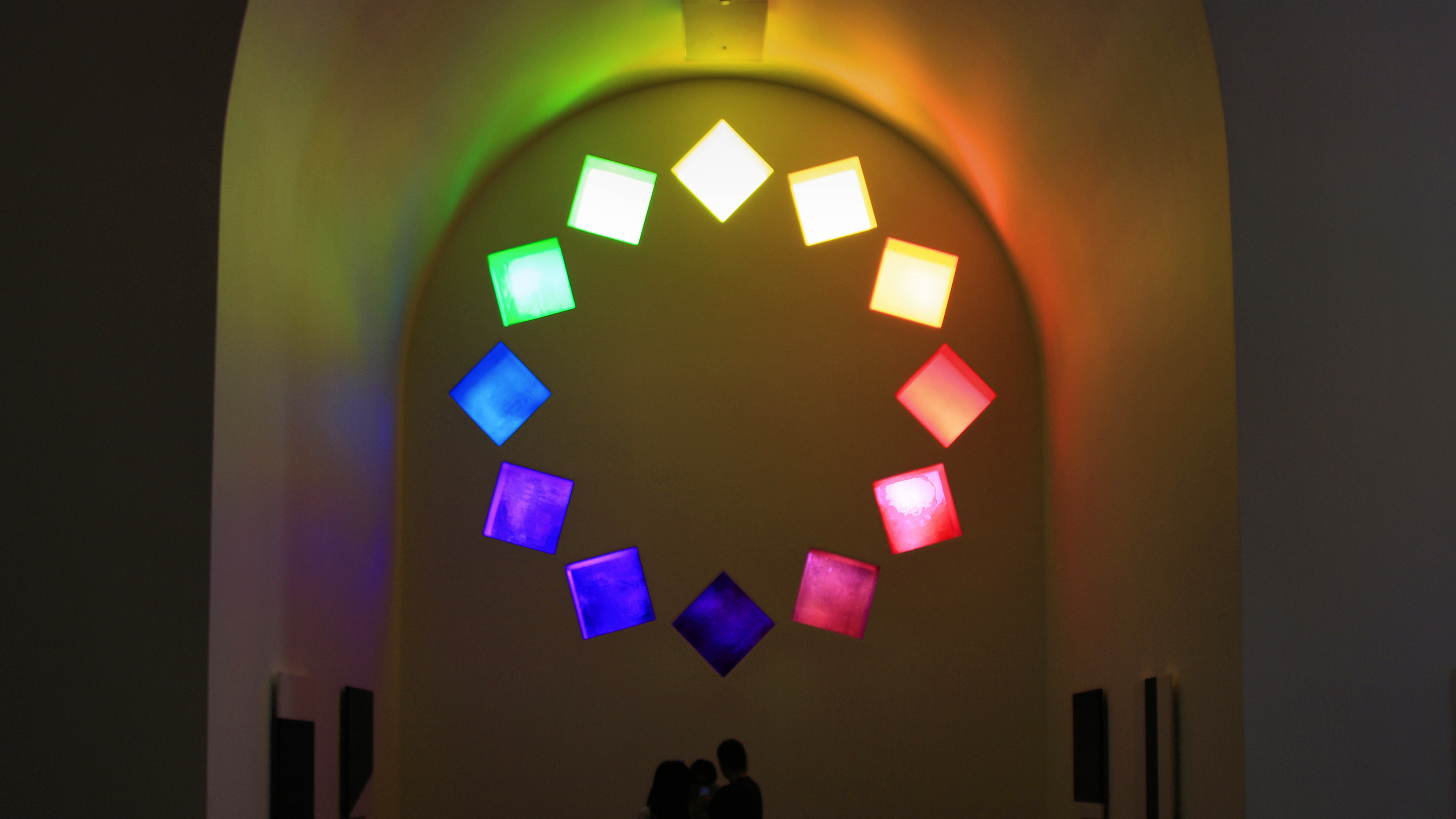 Austin (building) interior "tumbling squares" motif